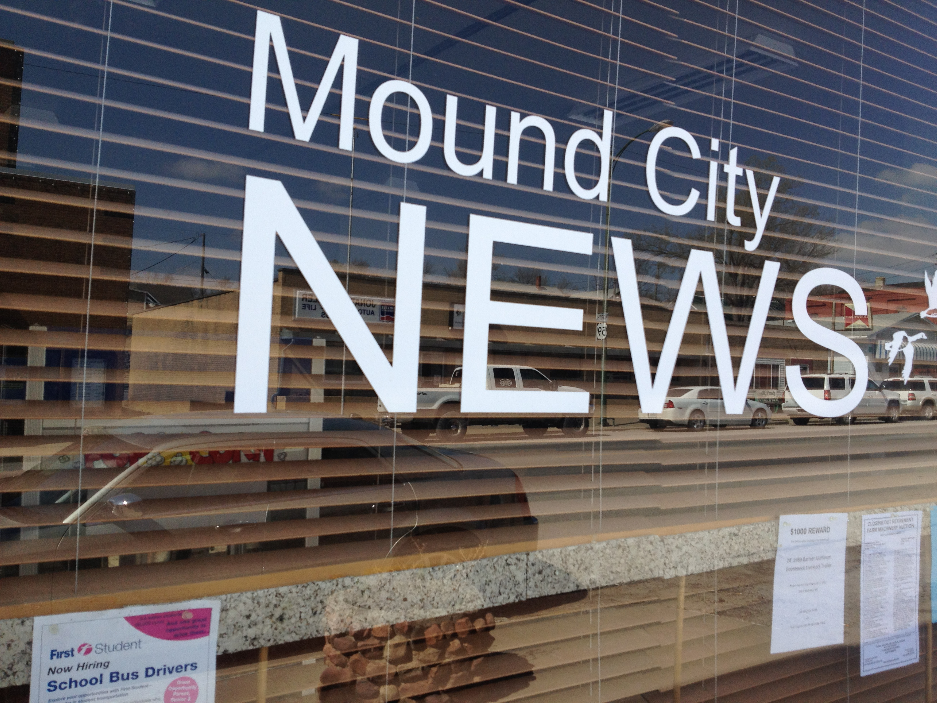 Window on office of Mound City Newspaper, Mound City, Missouri, USA